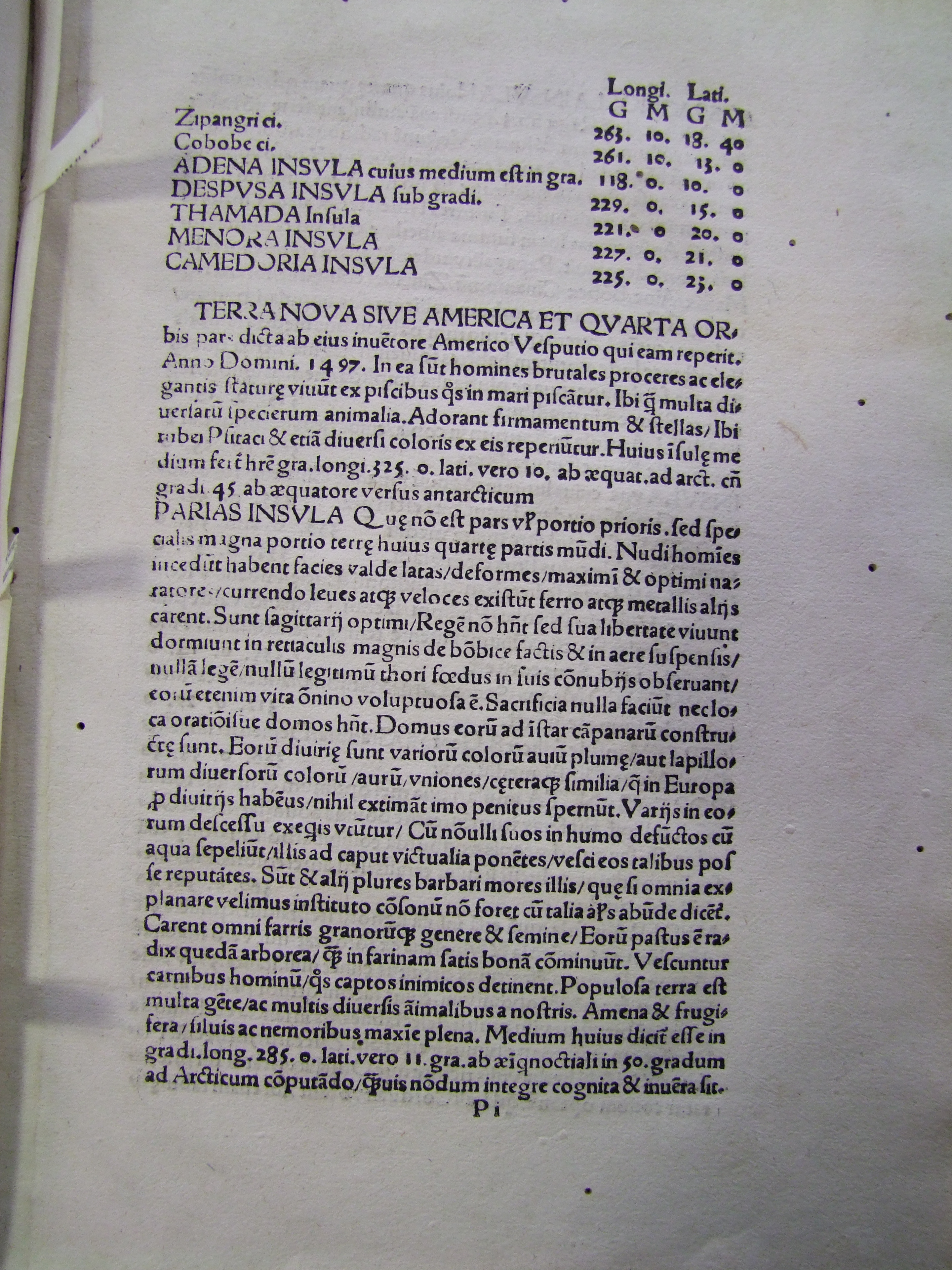 Jacobus Stoppels „Repertorium in formam alphabeticam""